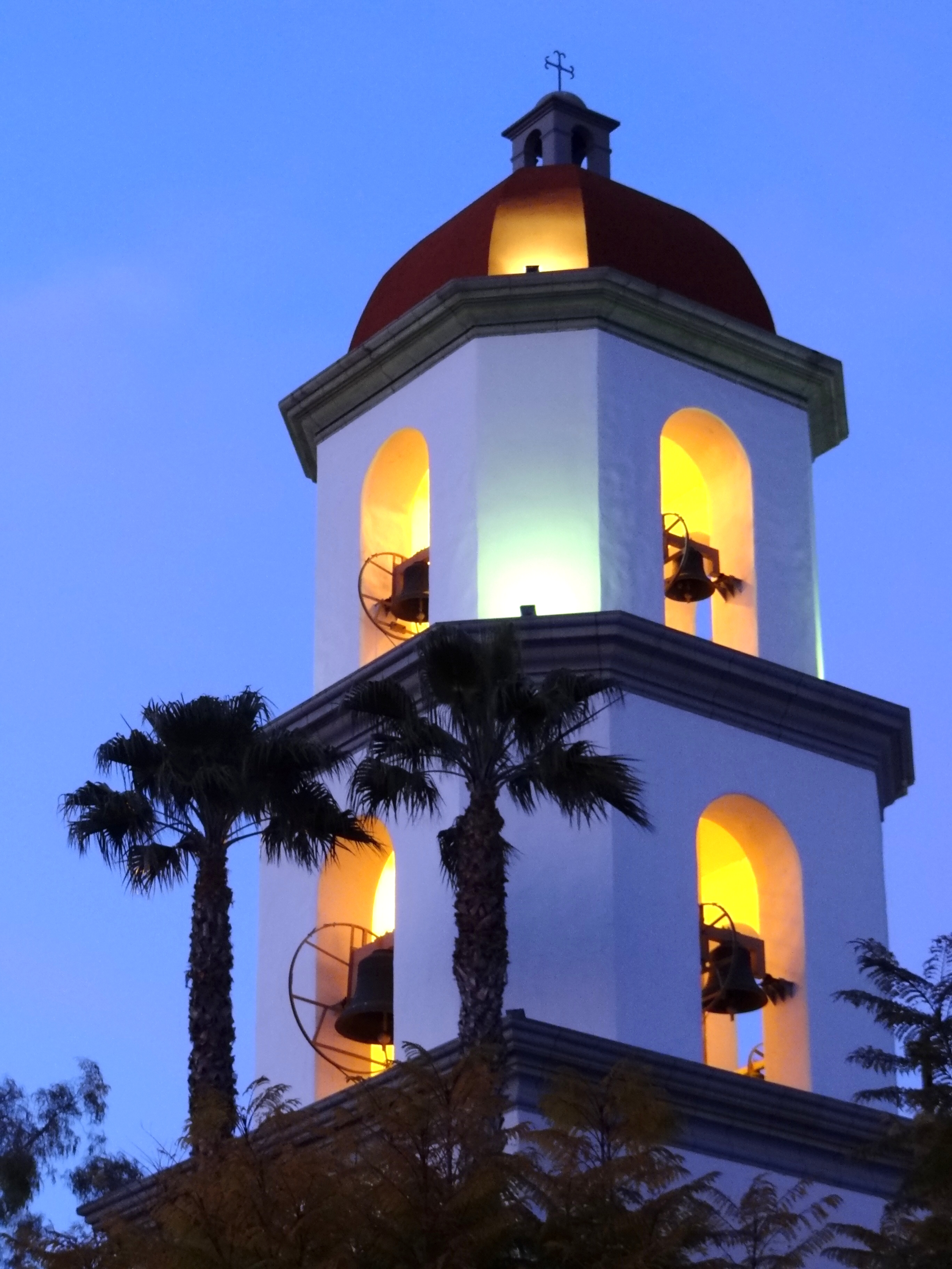 Belfry of Mission - San Juan Capistrano - California - USA